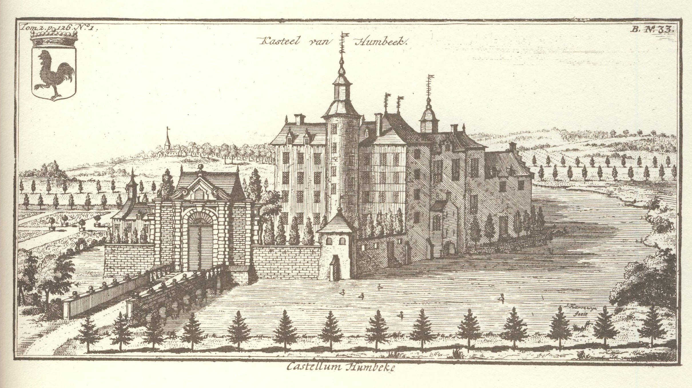 The Castle is situated half a mile from the Brabant city of Mechelen. In 1313, Florent Berthout sold the loan Humbeek to Daniel van Boechout. Humbeek became a county in 1695 (Lecocq family). Since 1830, the Humbeek Castle ('s Gravenkasteel) is owned by the Lunden family.